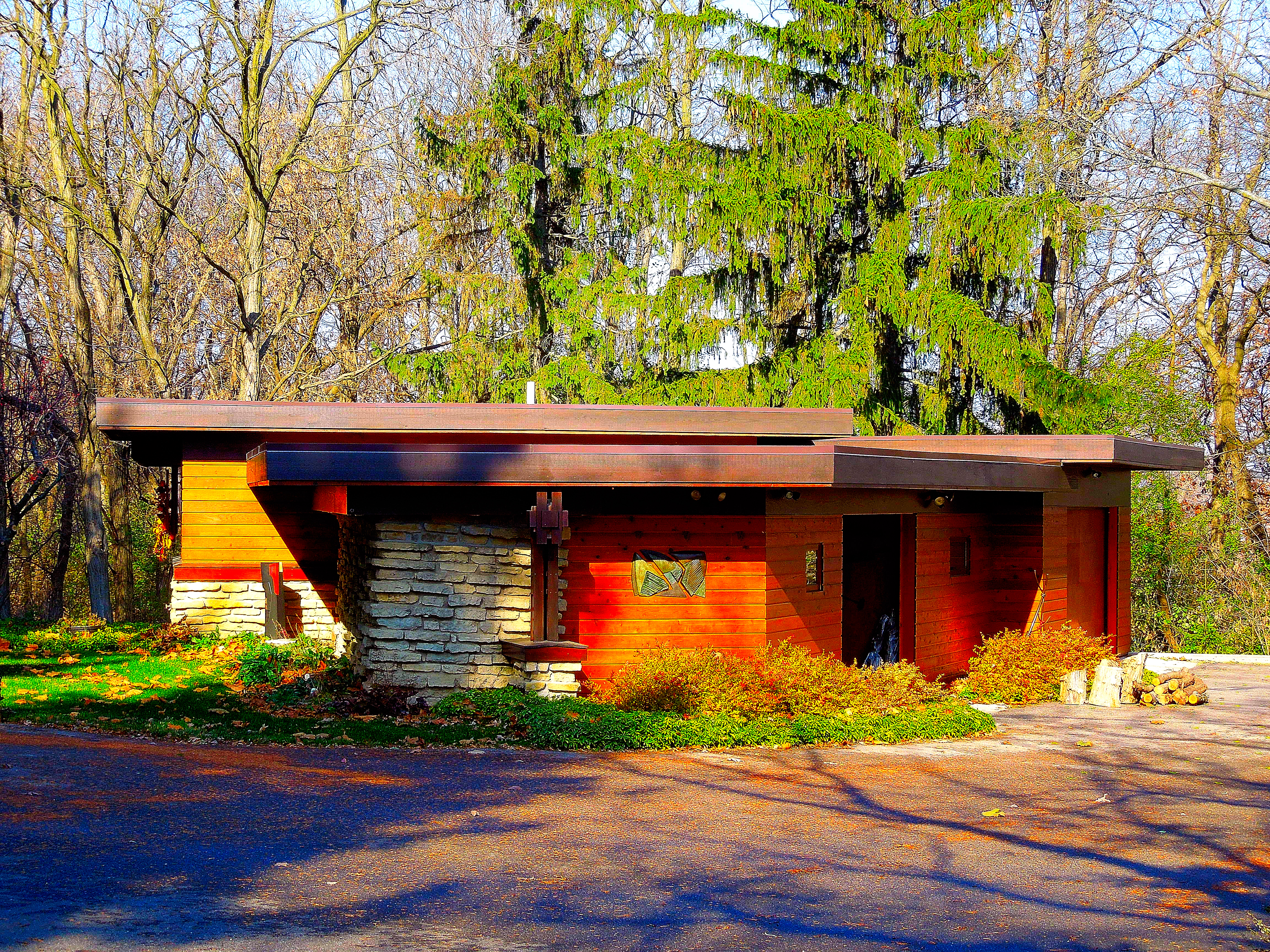 Herbert and Katherine Jacobs Second House: Early 2000s renovated Car Port